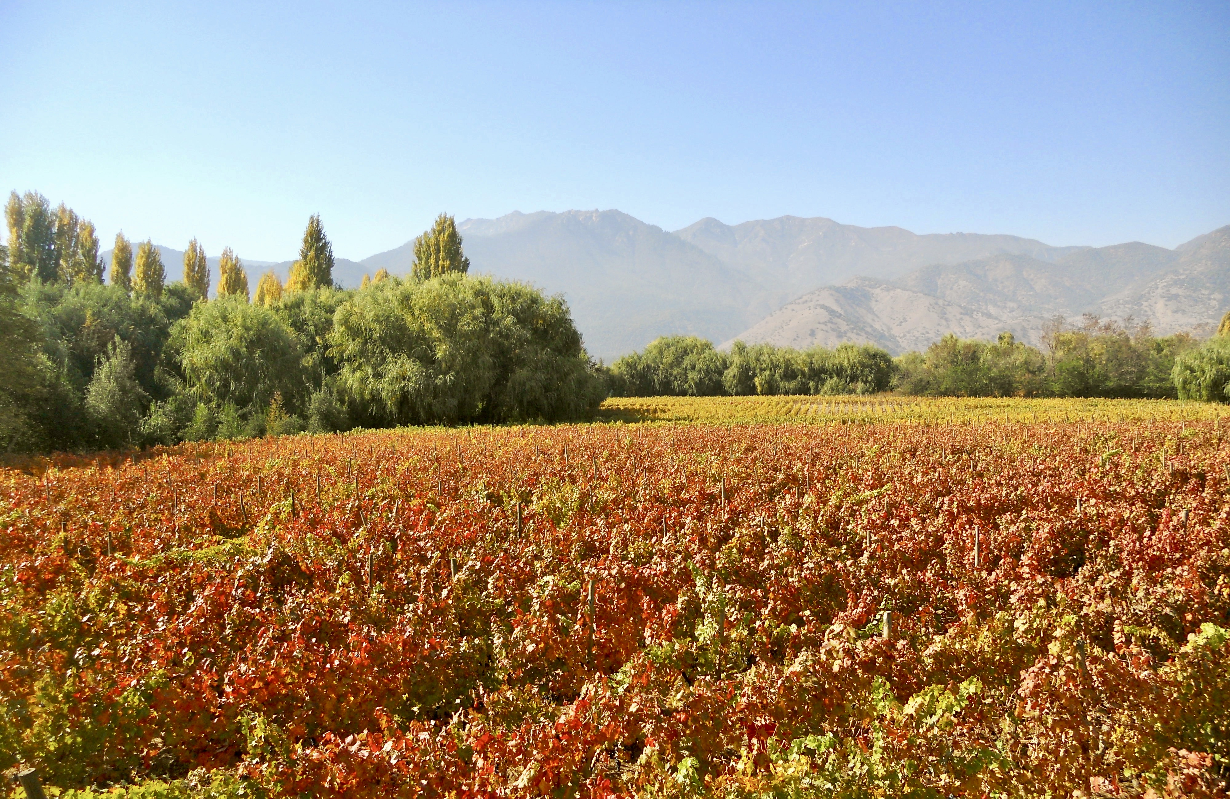 Carmenere Vineyards at Viña Tipaume